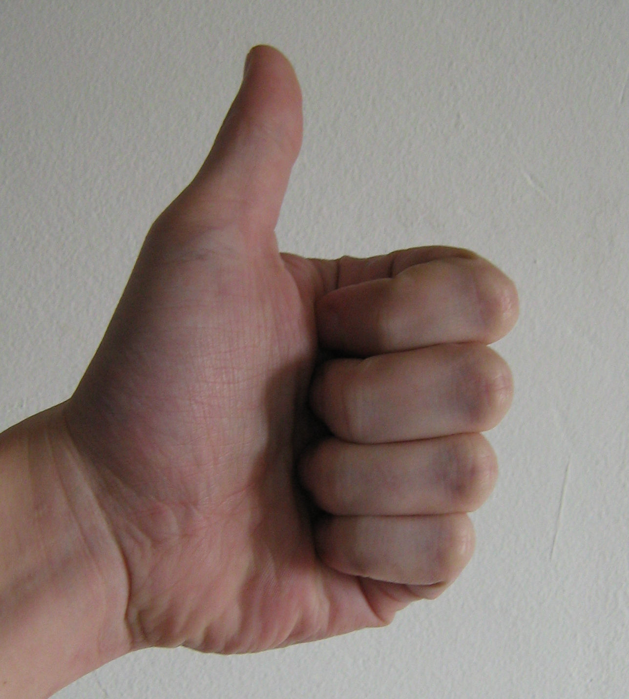 Photo showing hand with thumb up